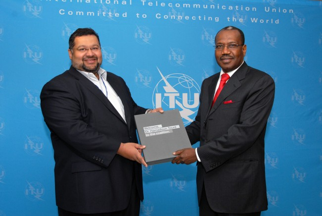 Amin Hamadoun Welcome